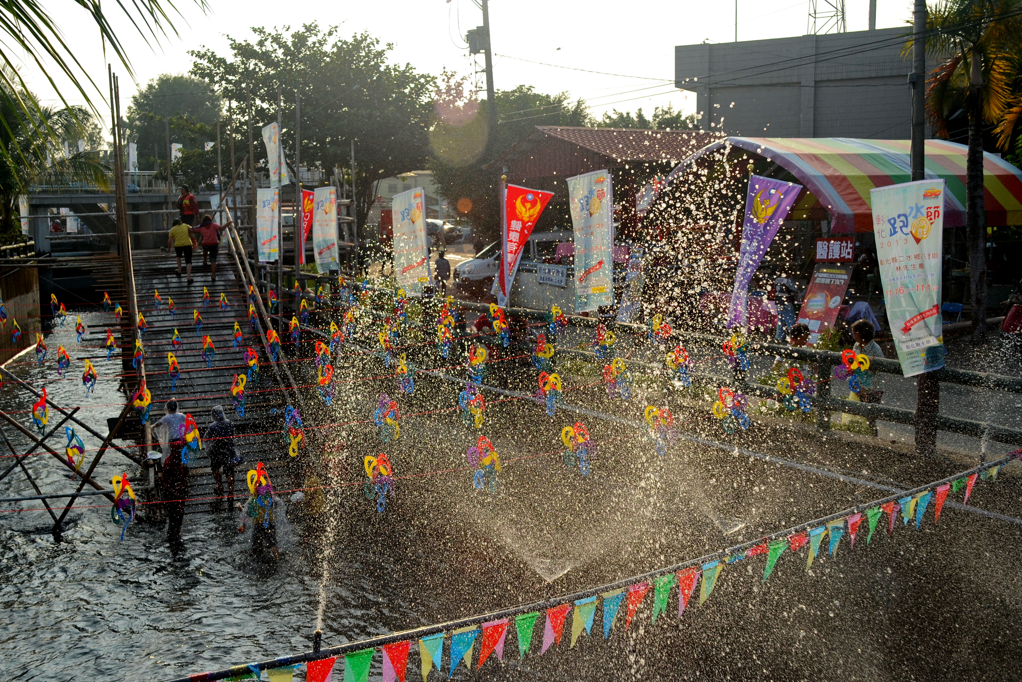 Taiwan Water Running Festival 2013, Babao Canal near the finishing line, Ershui, Changhua, Taiwan.